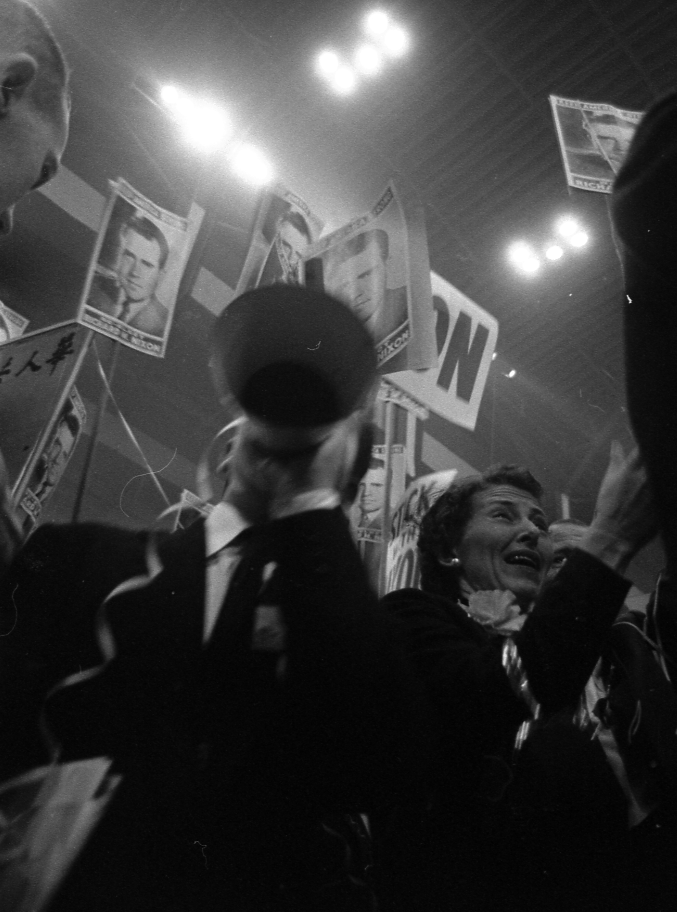 Attendees at the 1956 Republican National Convention, San Francisco, California. Photograph shows convention attendees applauding, speaking in a megaphone, and holding Nixon signs.